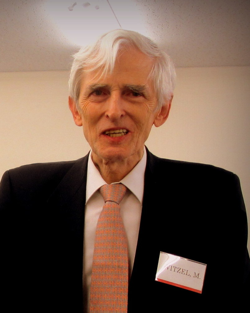 Thorsten Pattberg and Michael Witzel at Toho Gakkai Japan May 2013